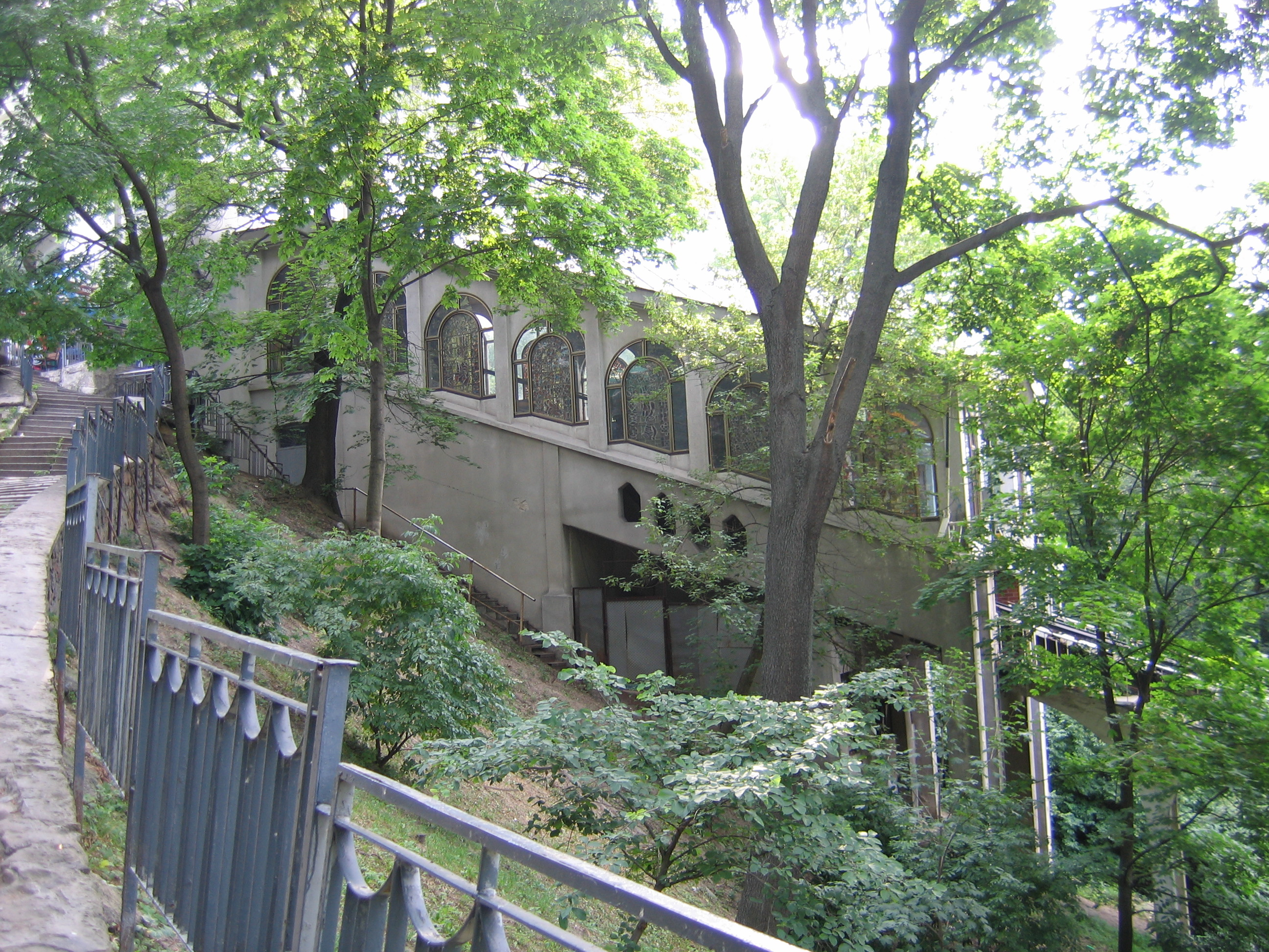 Kiev funicular. Upper station